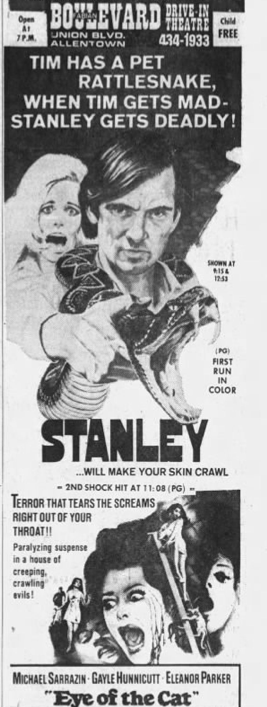 Boulevard Drive-In theater advertisement for the American films Stanley (1972) and Eye of the Cat (1969) - 16 Jun. 1972 Morning Call, Allentown PA